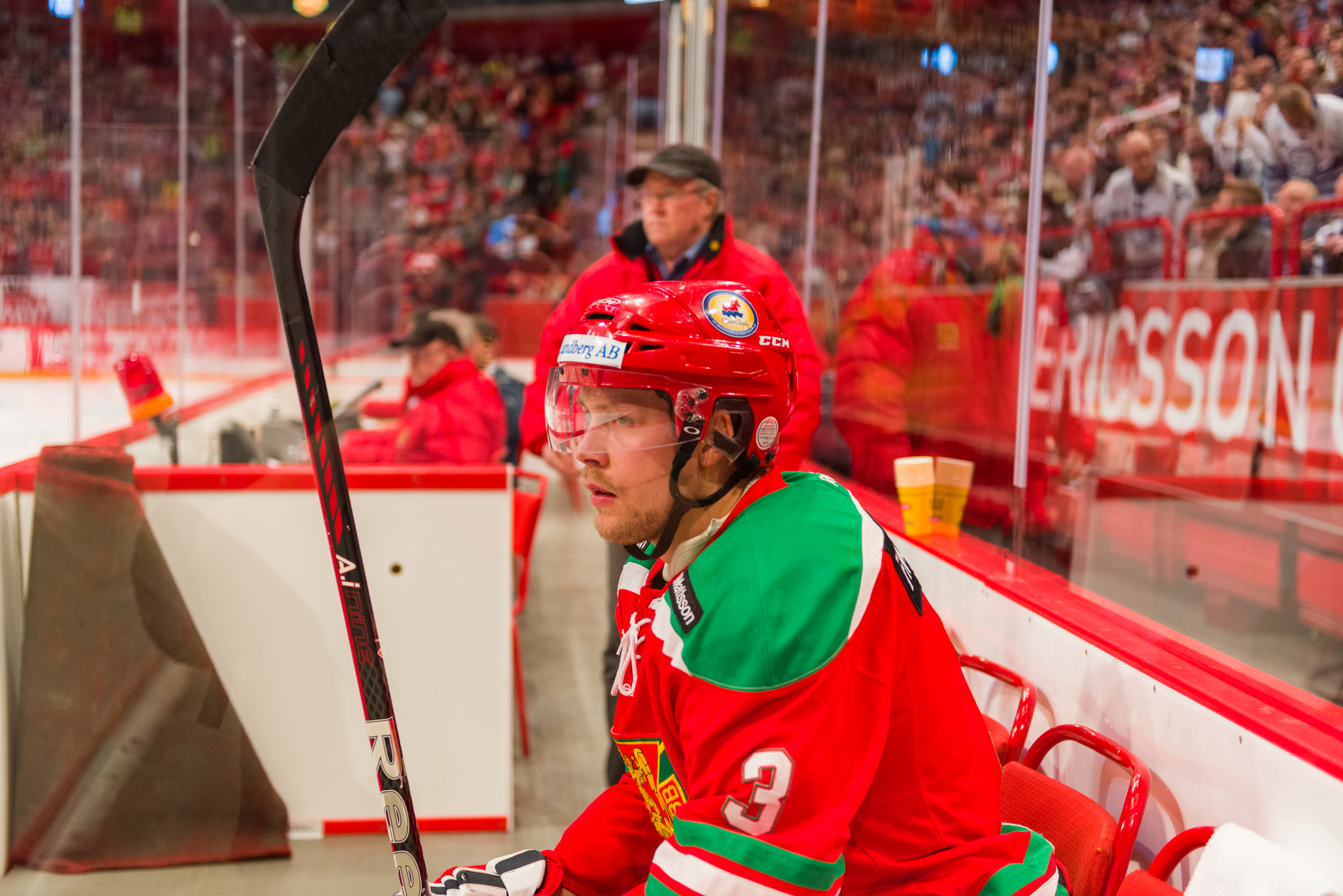 Match between Leksand and Mora in Hockeyallsvenskan (Swedish second league), Stockholm 2013-01-05. Kalle Ekelund, Mora IK, in the penelty box.